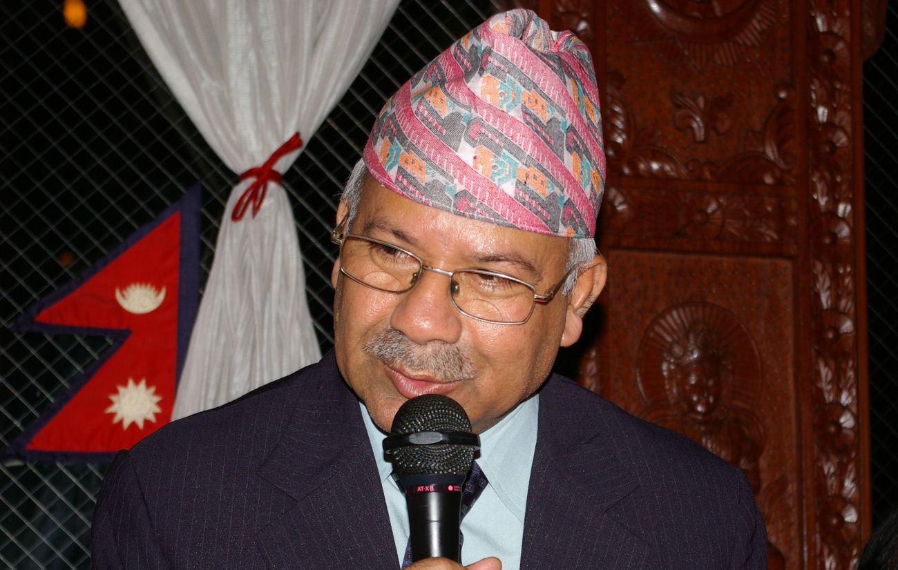 Madhav Kumar Nepal, Nepalese politician.